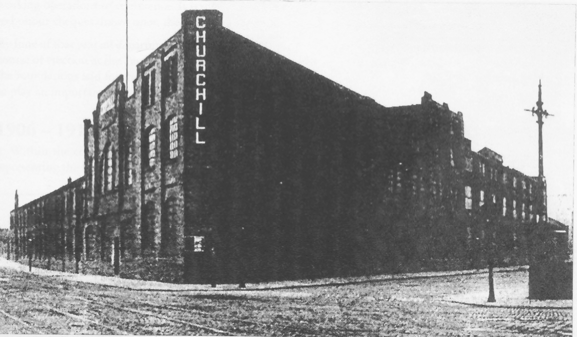 Factory of The Churchill Machine Tool Company at Pendleton, Salford, UK. The company moved from here in 1920.